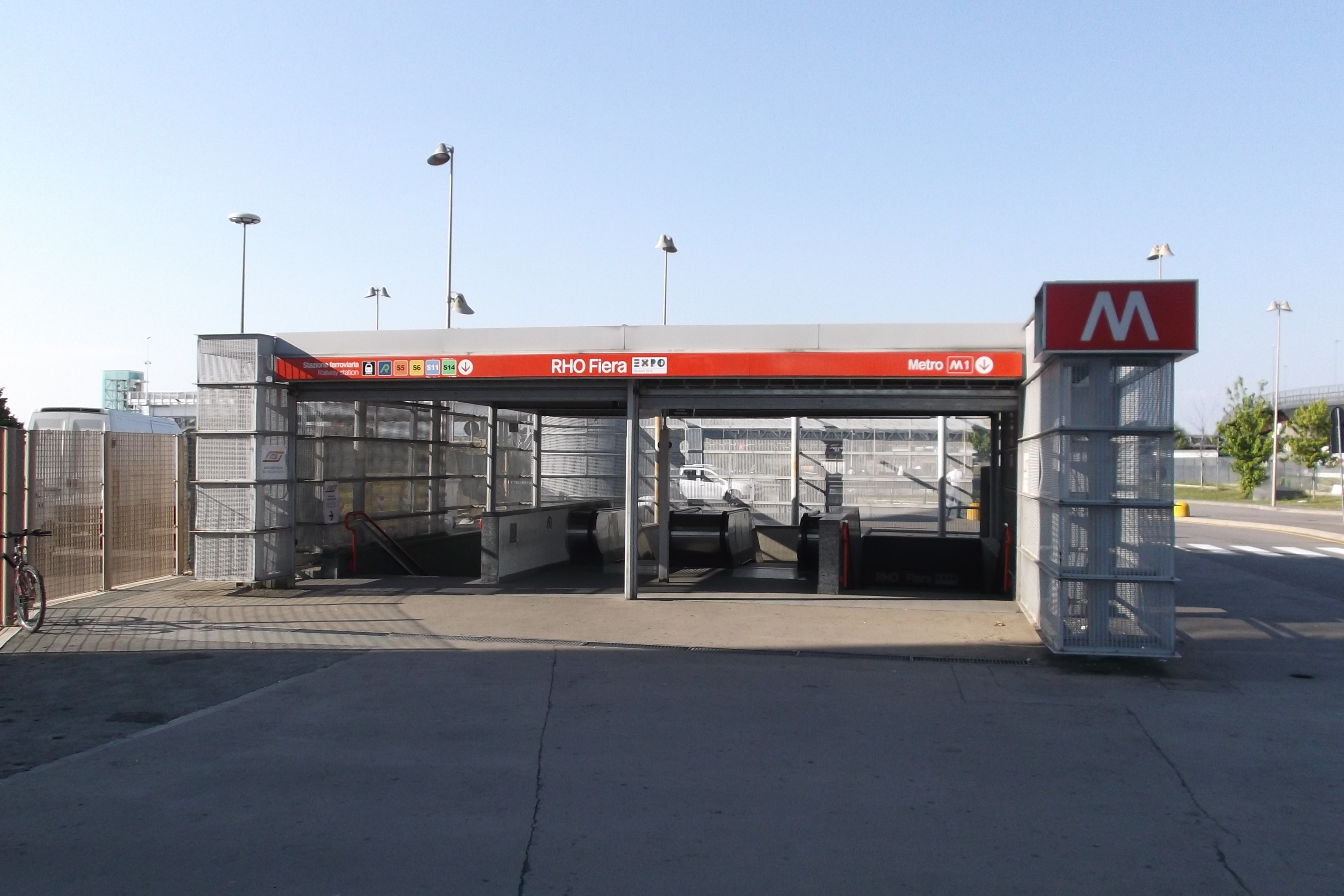 Entrance of Milan Metro 1 Rho Fiera station